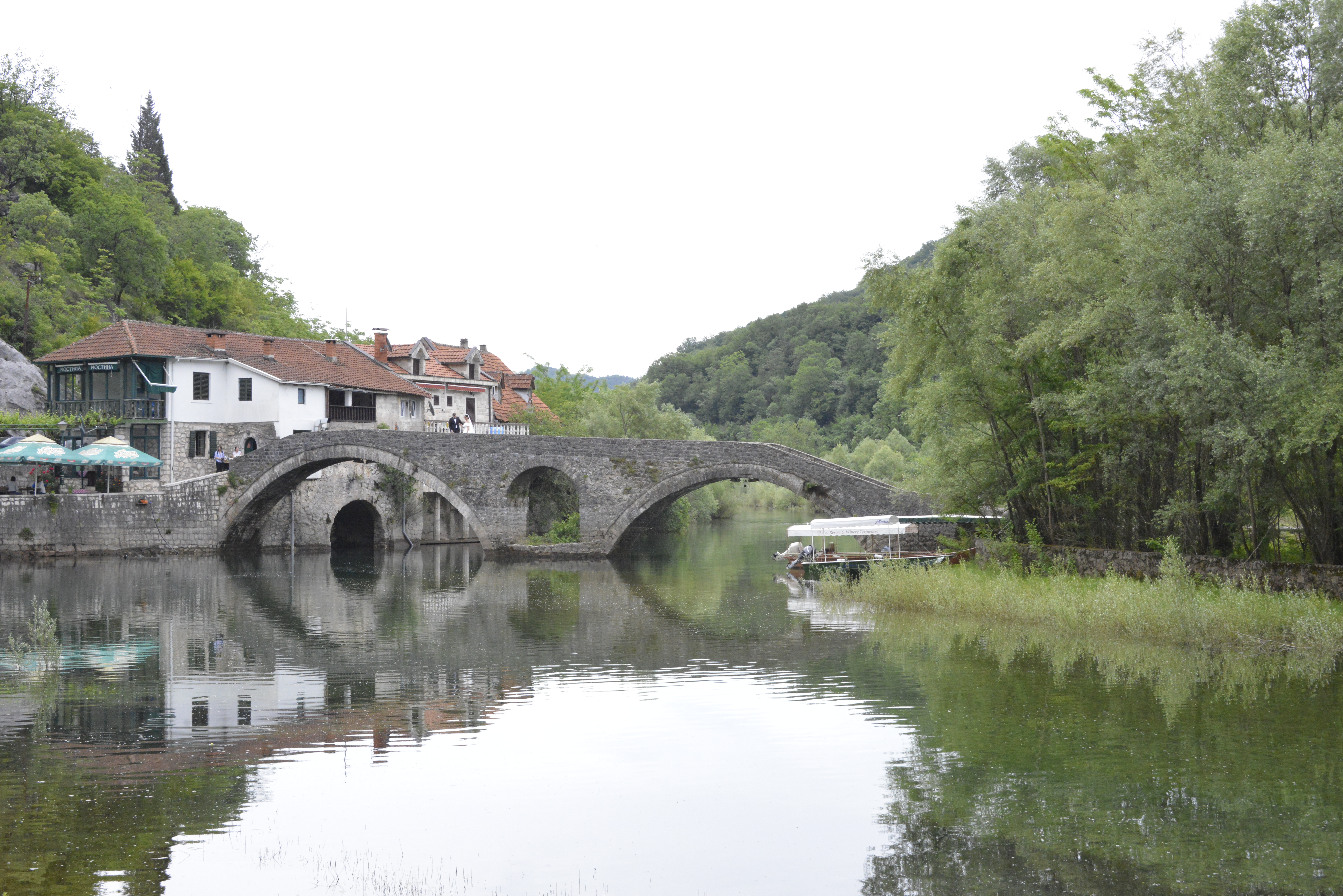 Environment in and around Rijeka Crnojevića, a small town on Lake Skadar (Lake Scutari), Montenegro